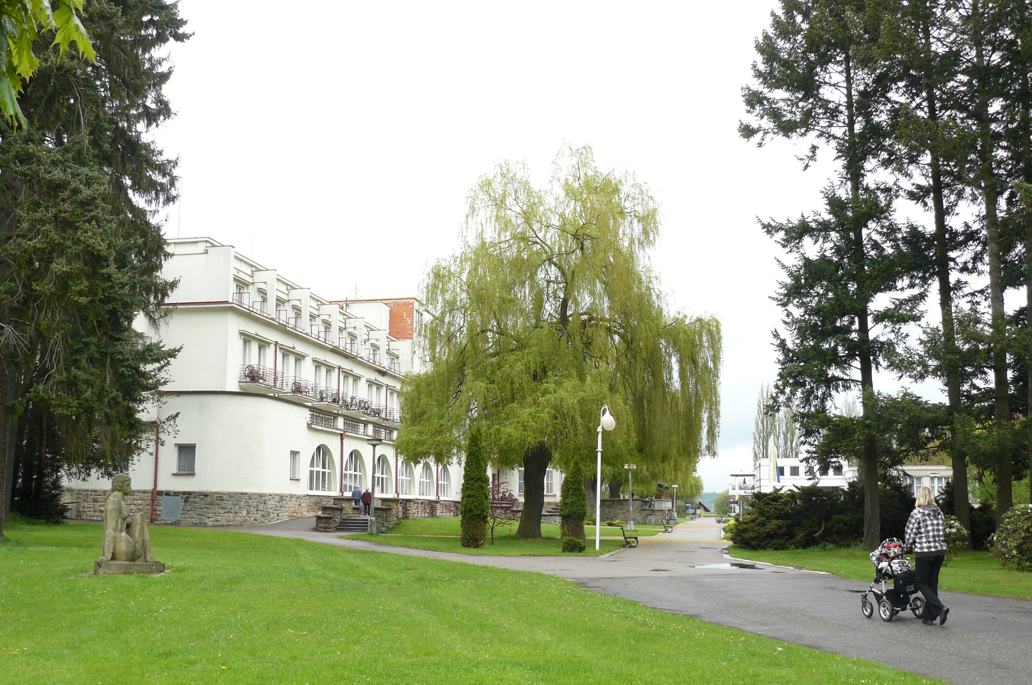 Velichovky - park and Kurort Center.